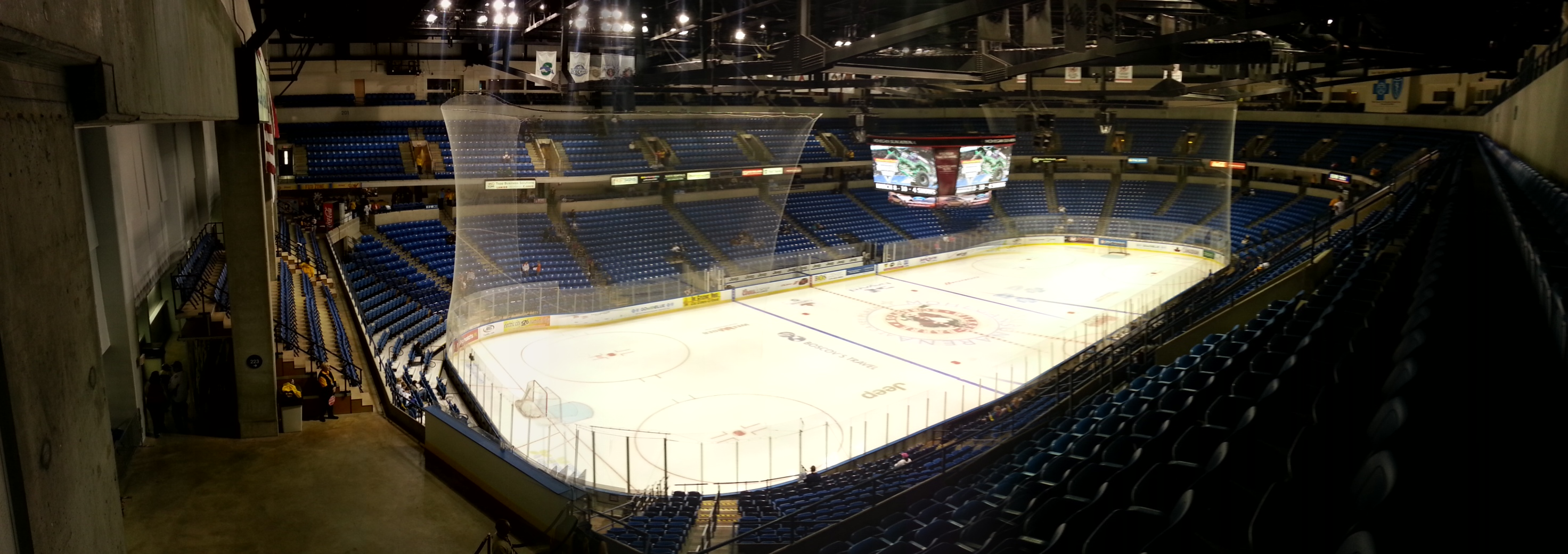 Pamaramic